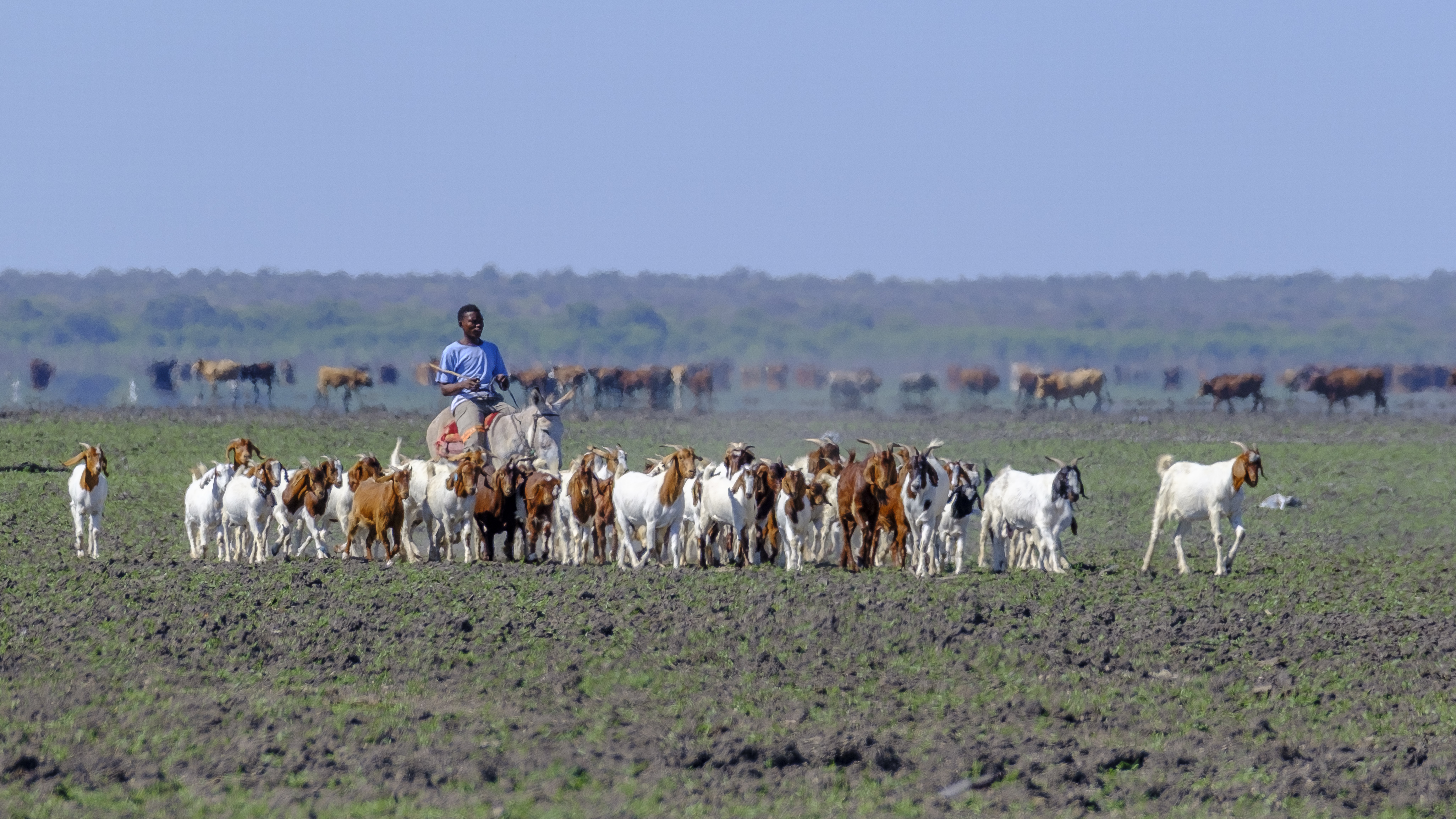 In the dry season, shepherds go with their goats to nutritious grasslands. This is an image with the theme "Africa on the Move or Transport" from: Botswana